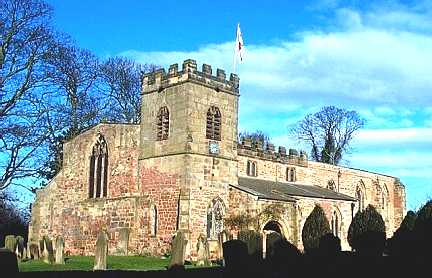 Croft on Tees, St Peter's Church. This Church is in the north east corner of the O/S grid it occupies.